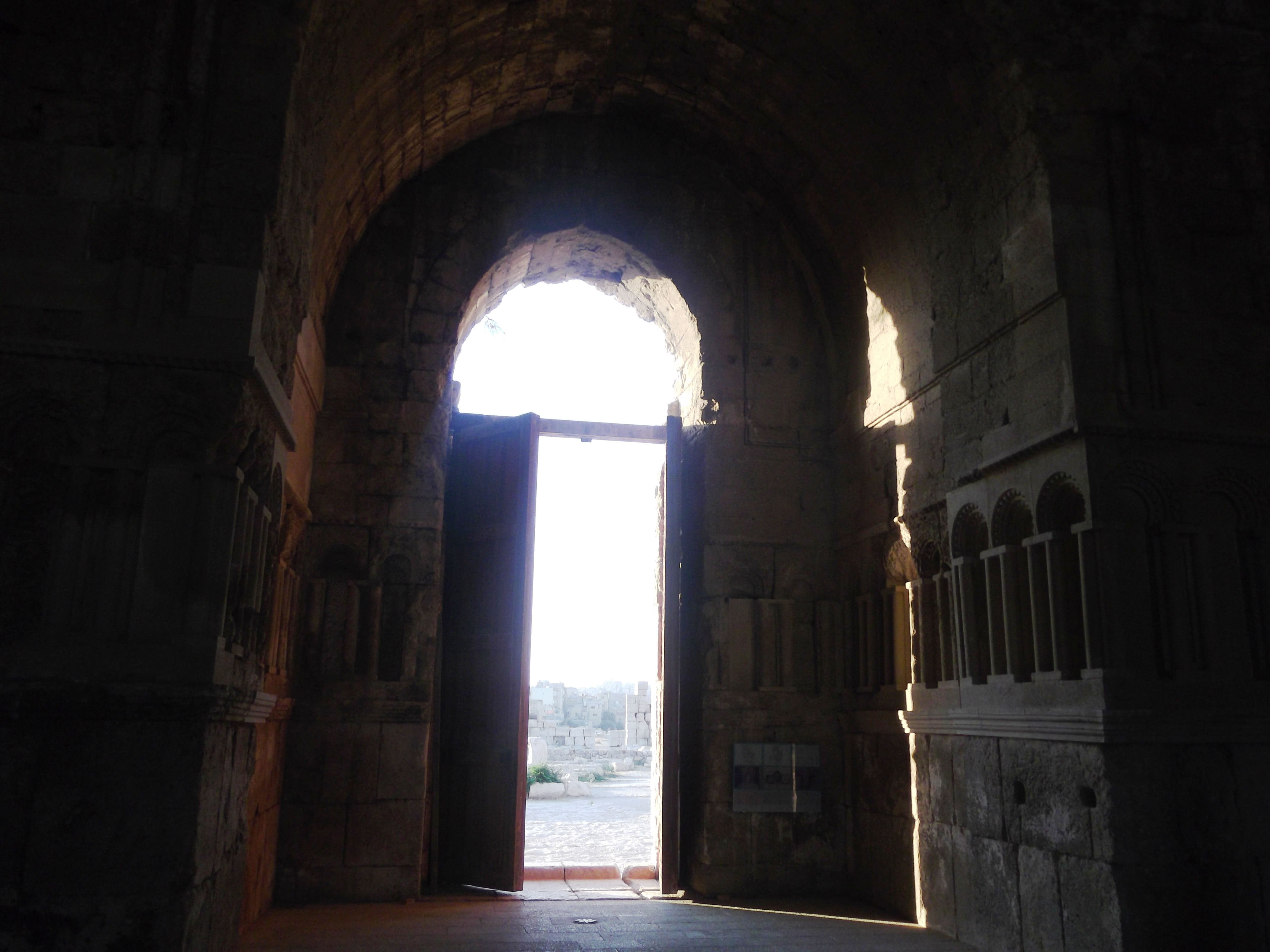 Inside the Umayyad Palace, Amman Citadel